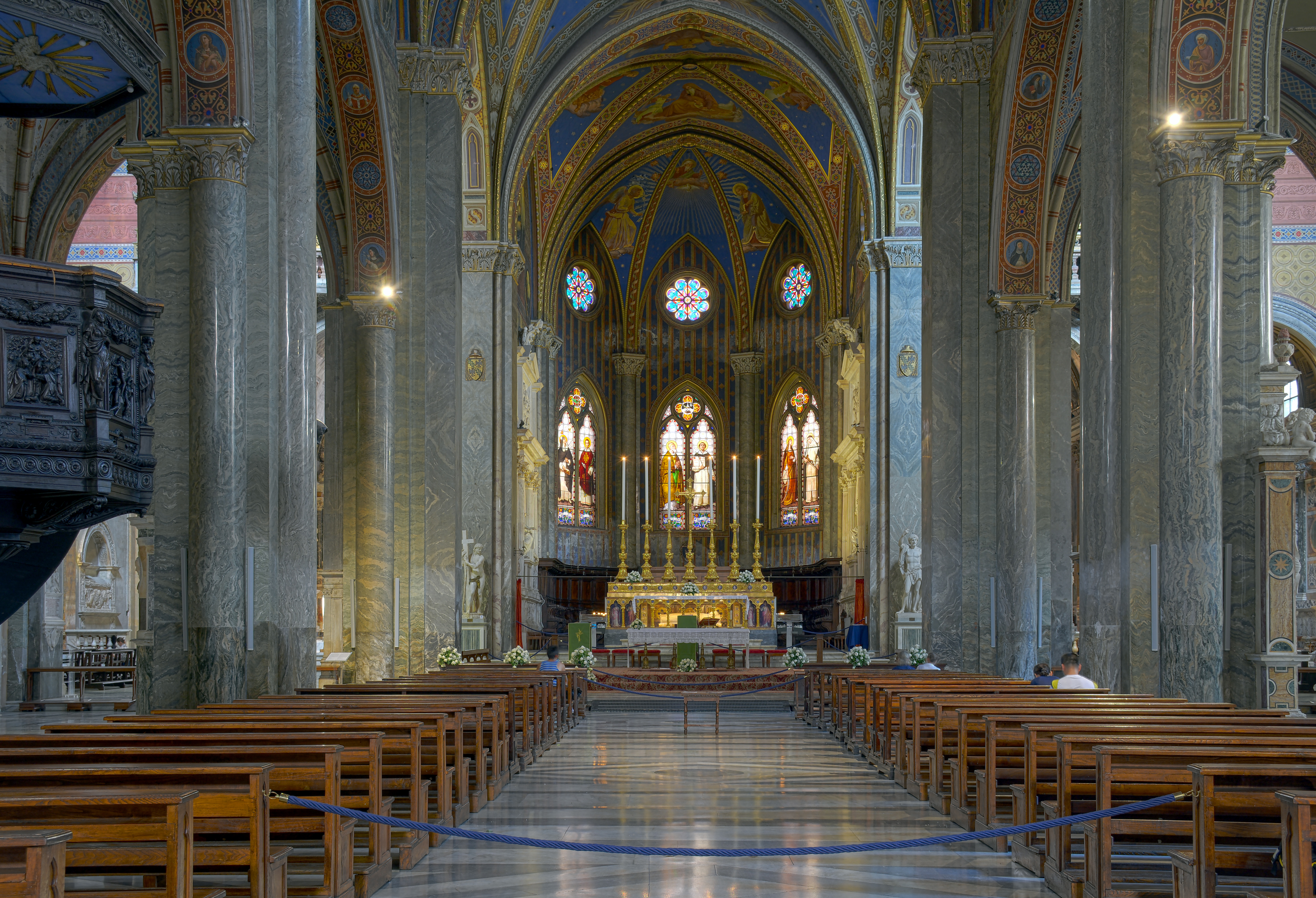 Santa Maria sopra Minerva (Rome) - Inside HDR